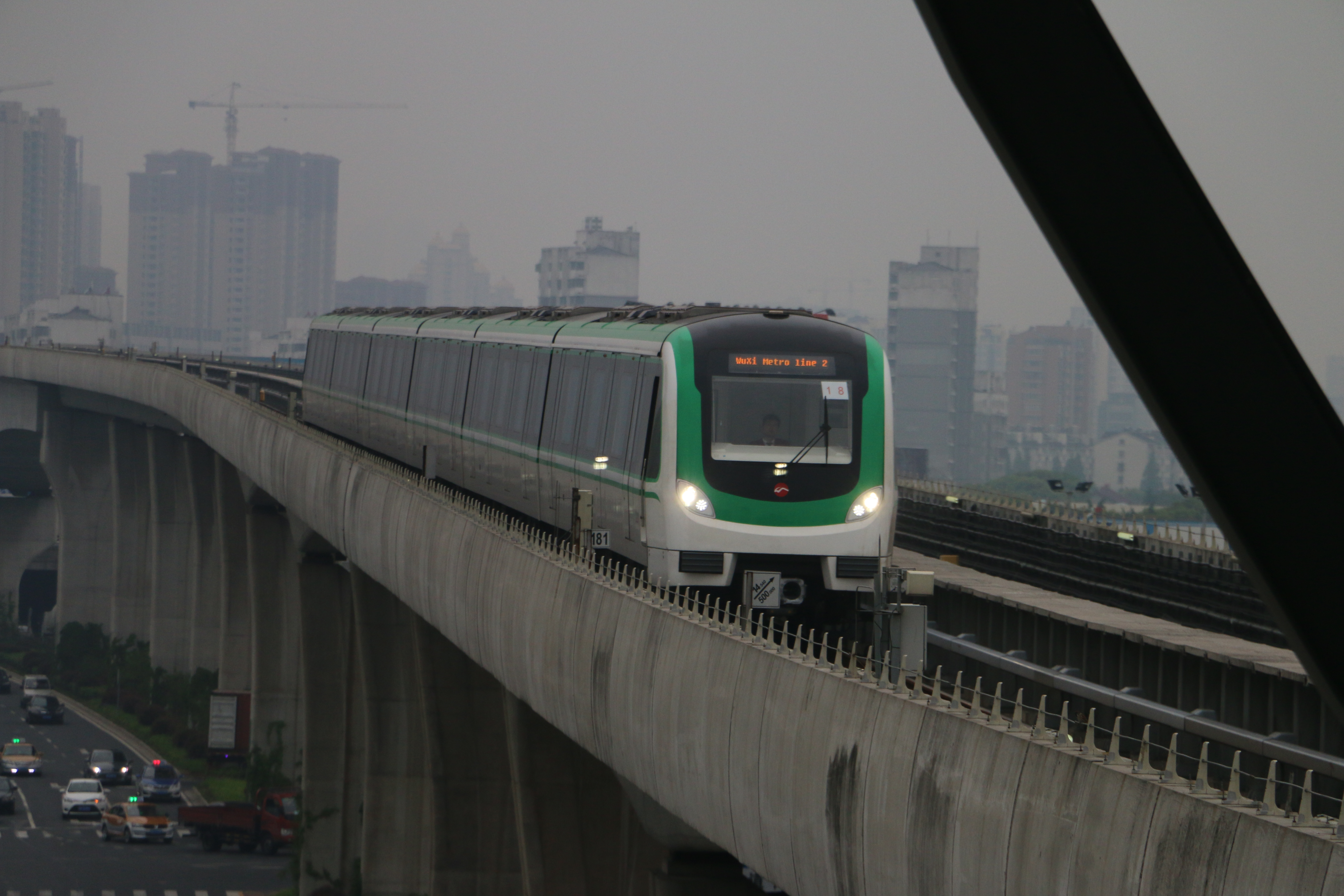 201604 A Wuxi L2 EMU approaches to Yunlin Station